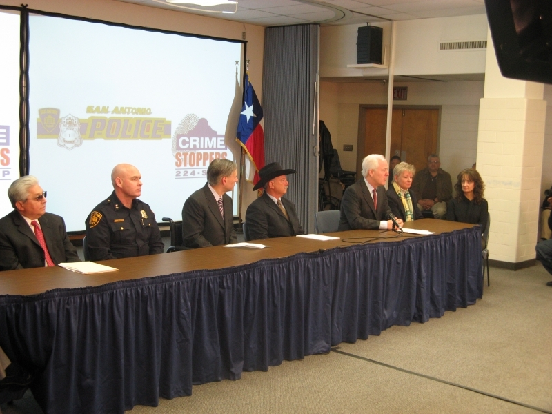 U.S. Sen. John Cornyn, R-Texas, was in San Antonio with Texas Attorney General Greg Abbott Thursday, January 17, 2008, to highlight Crime Stoppers Month and the efforts of San Antonio Crime Stoppers, law enforcement officials and community leaders in fighting against local crime. The President of San Antonio Crime Stoppers, Bob Vallance, briefed Sen. Cornyn and Gen. Abbott on the importance of the Crime Stoppers program, the latest developments in the fight against crime in San Antonio, and the positive impact the organization has had on the surrounding community.